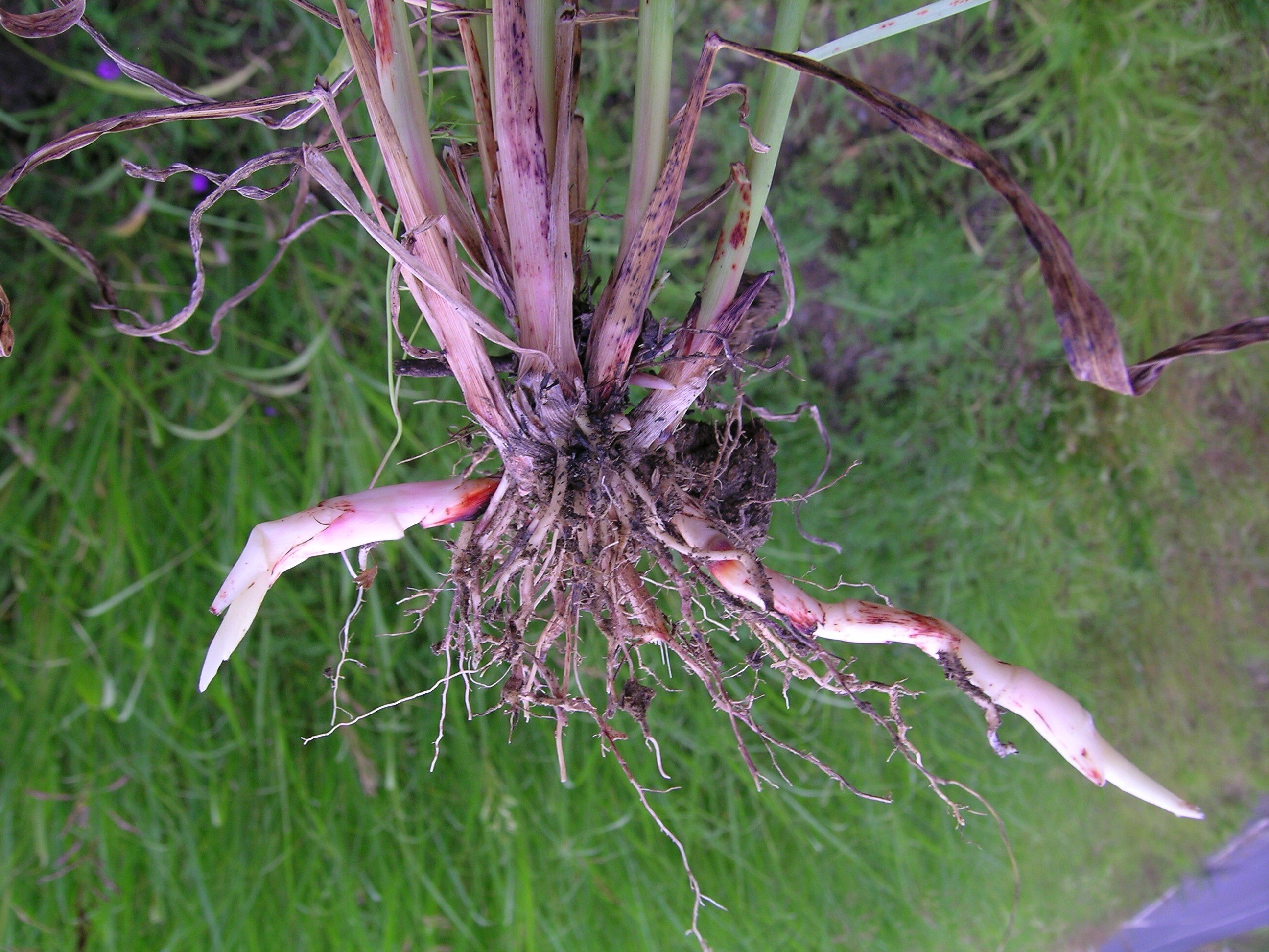 Plants have long, stout rhizomes.